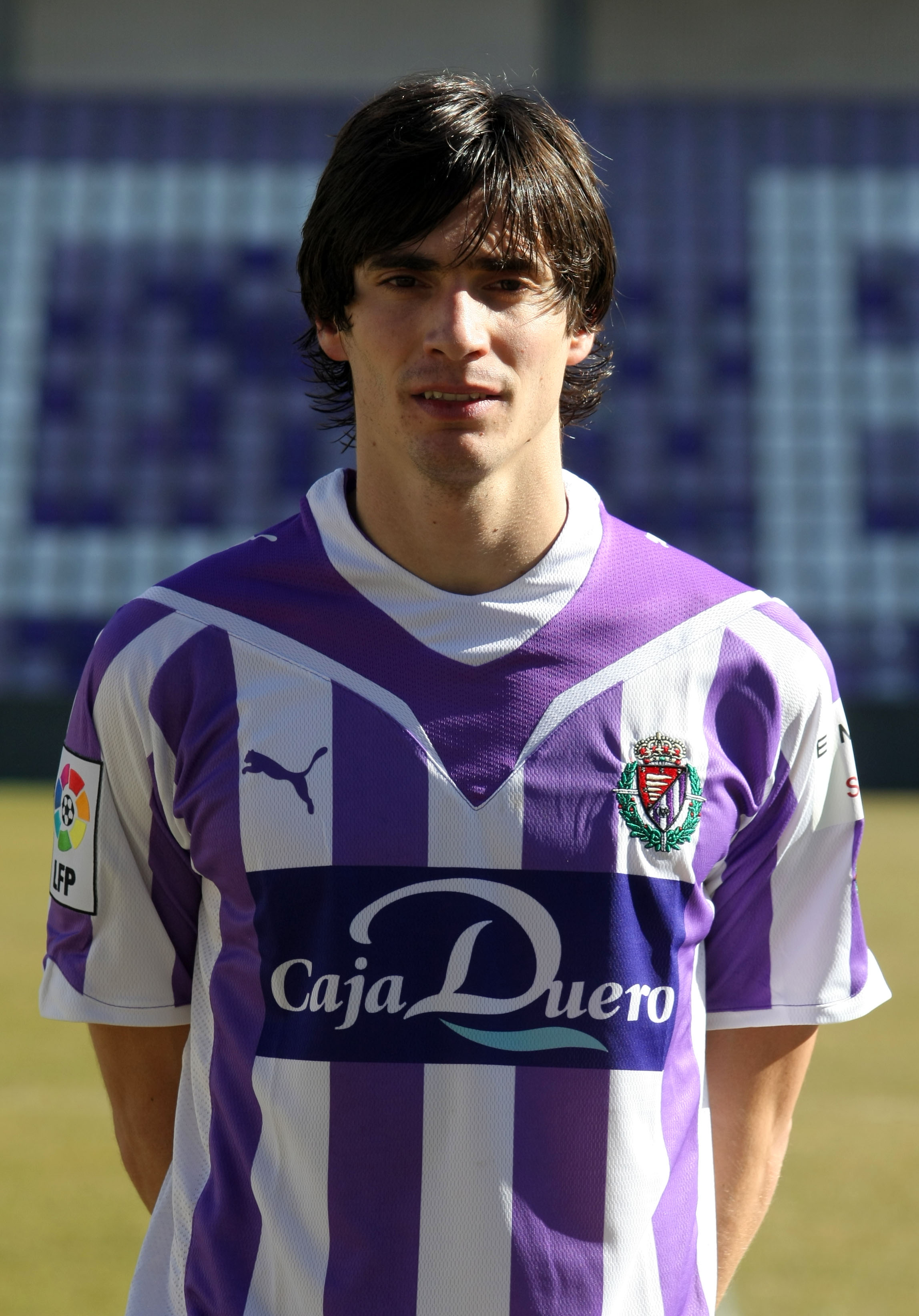 Henrique Sereno as new Real Valladolid player.